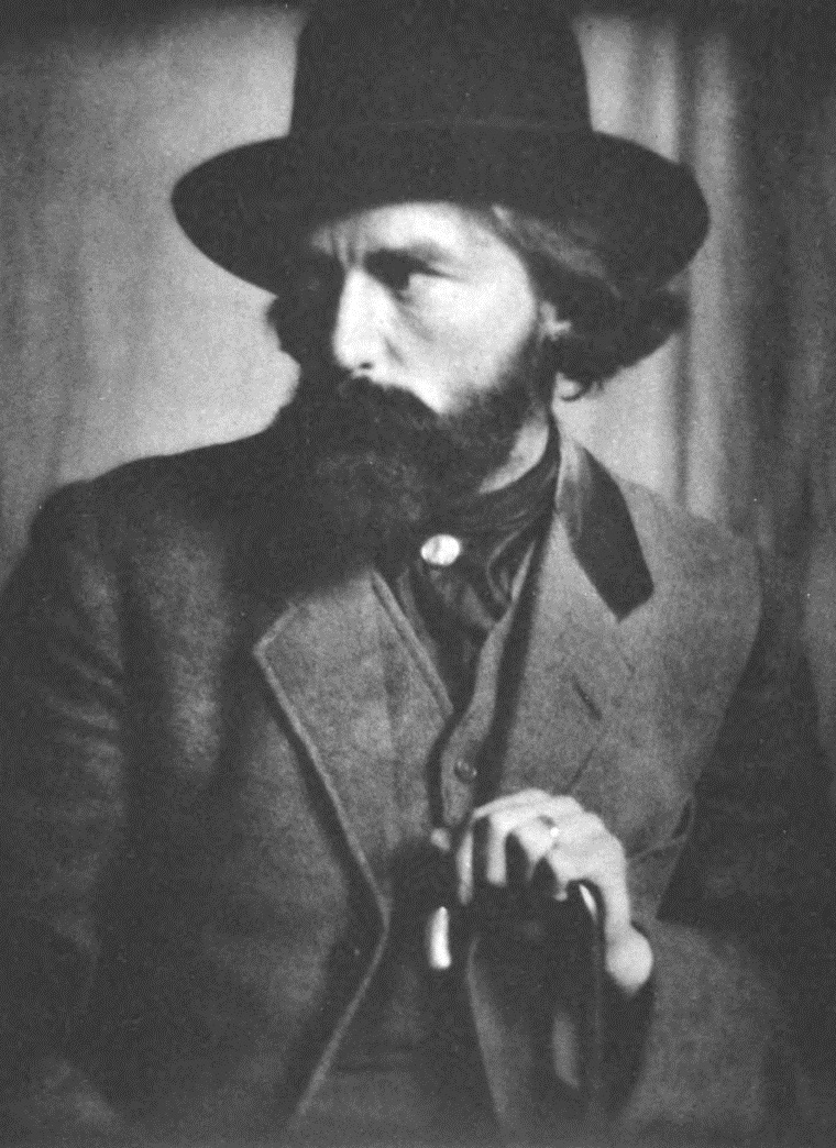 Augustus John